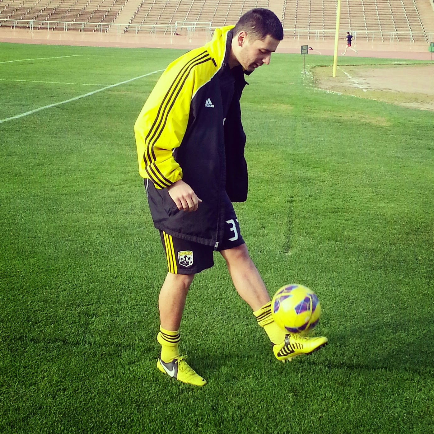 Simon Mrsic (during training with MLS side Columbus Crew in 2011